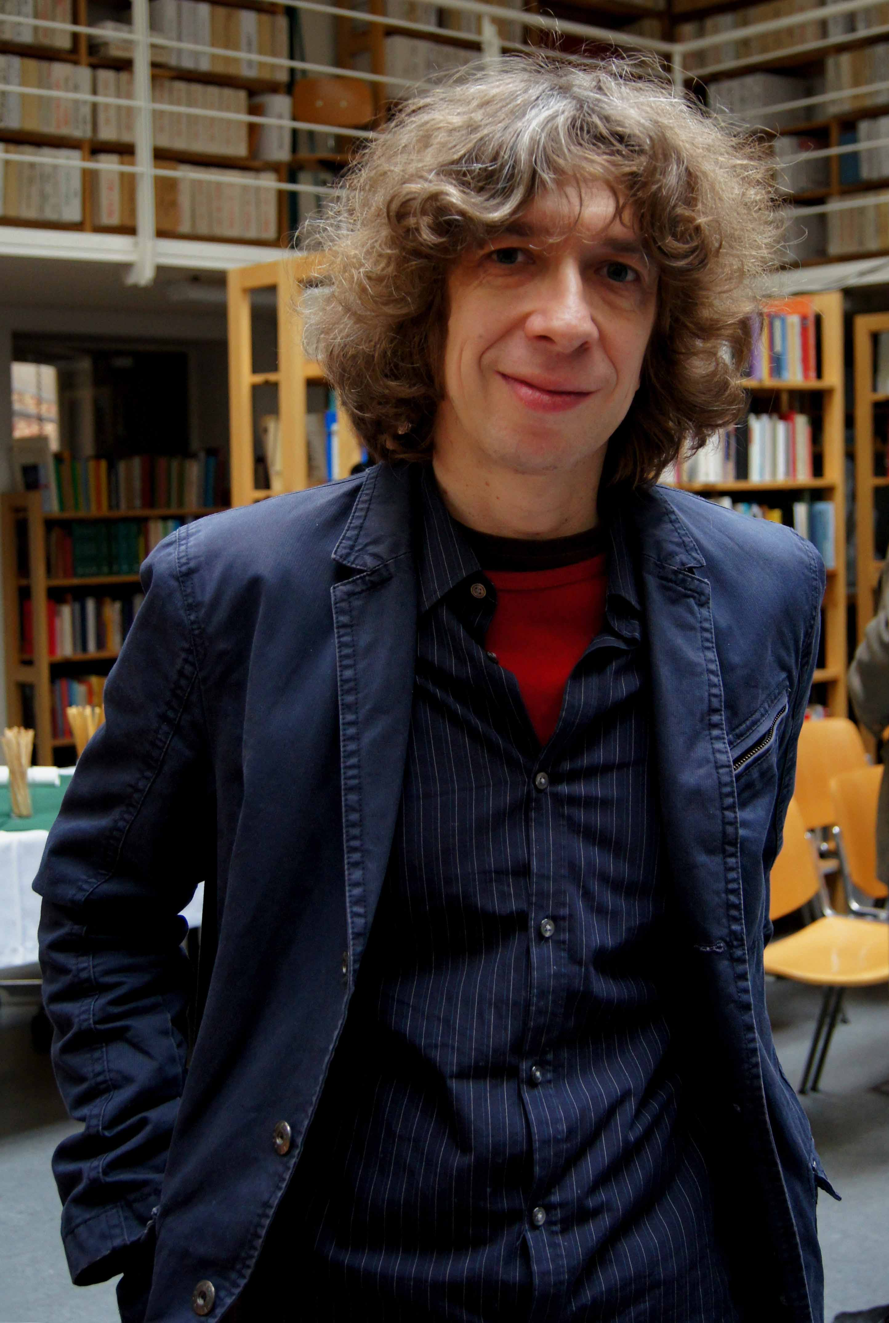 Austrian writer Thomas Stangl (see also: Thomas Stangl (writer)) after getting Erich Fried Preis in 2011. Stangl was elected by juror Barbara Frischmuth.